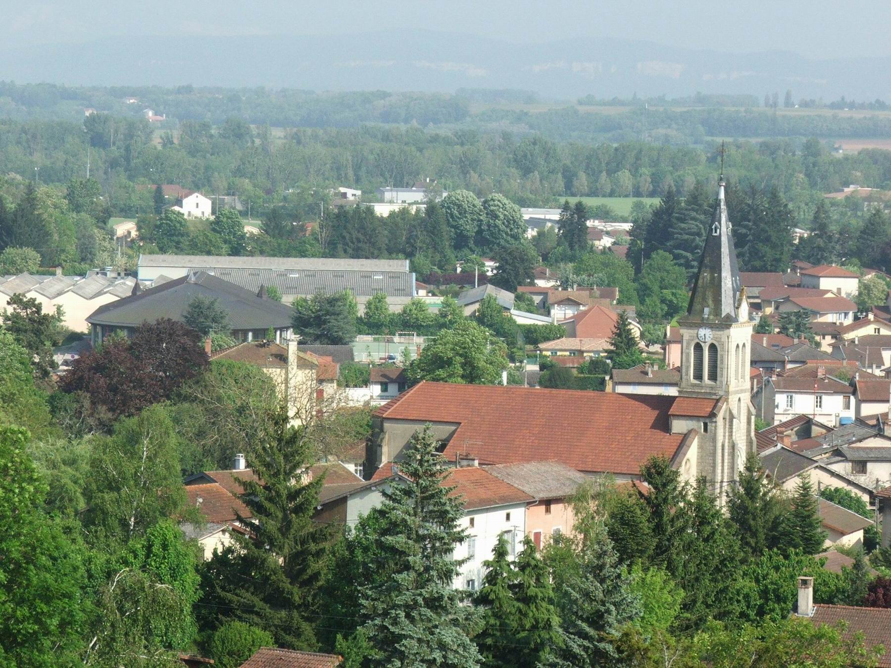 General view of the centre of french village of Villieu in department Ain